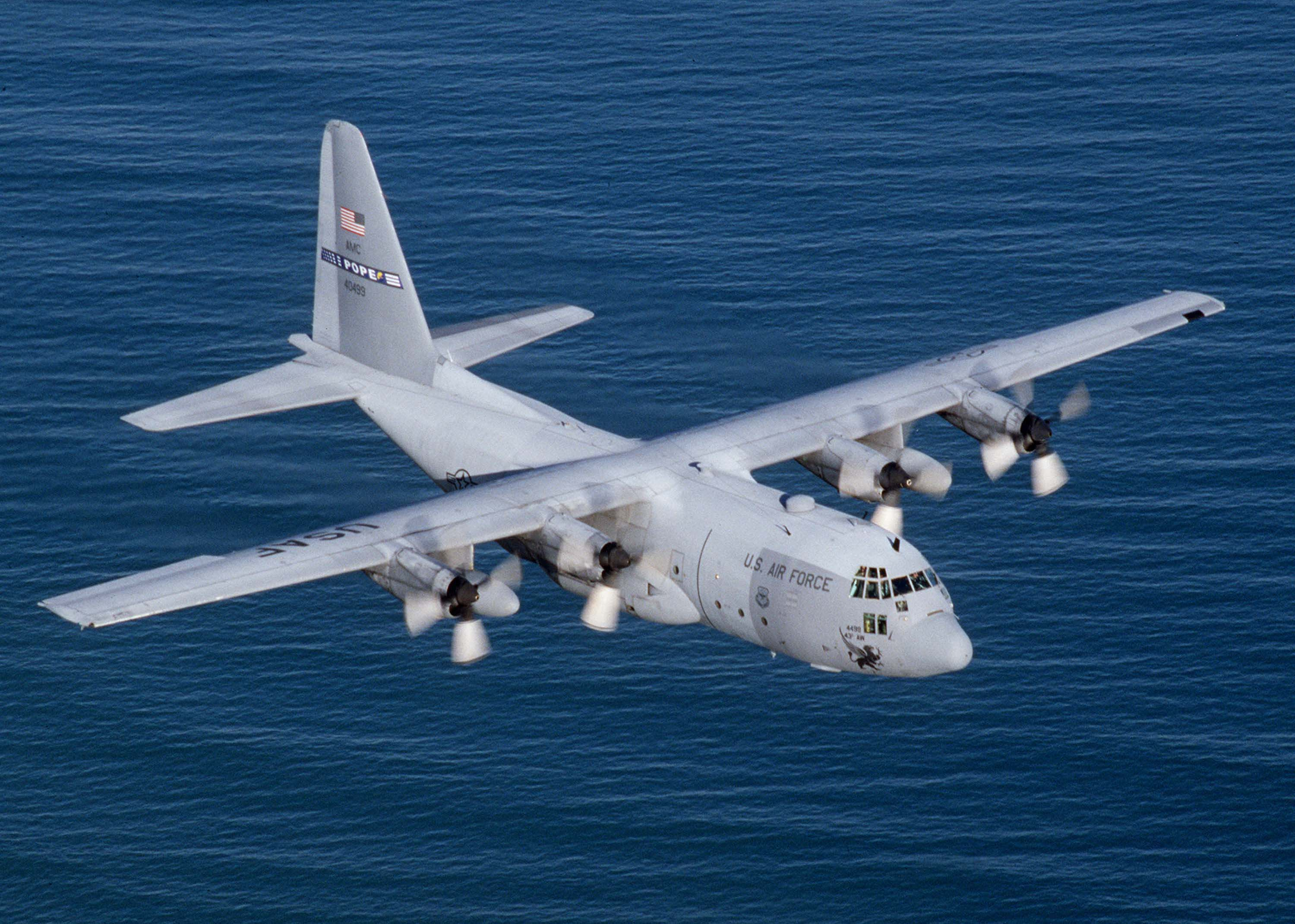 A C-130E Hercules from the 43rd Airlift Wing, Pope Air Force Base, N.C., flies over the Atlantic Ocean. The C-130 Hercules primarily performs the intratheater portion of the airlift mission. The aircraft is capable of operating from rough, dirt strips and is the prime transport for paradropping troops and equipment into hostile areas.